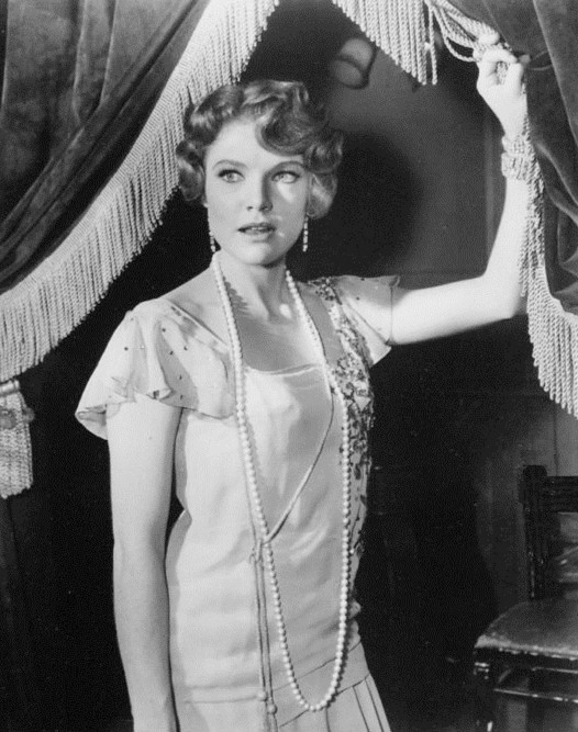 Photo of Pippa Scott in a scene from the 1960 Twilight Zone episode The Trouble With Templeton.